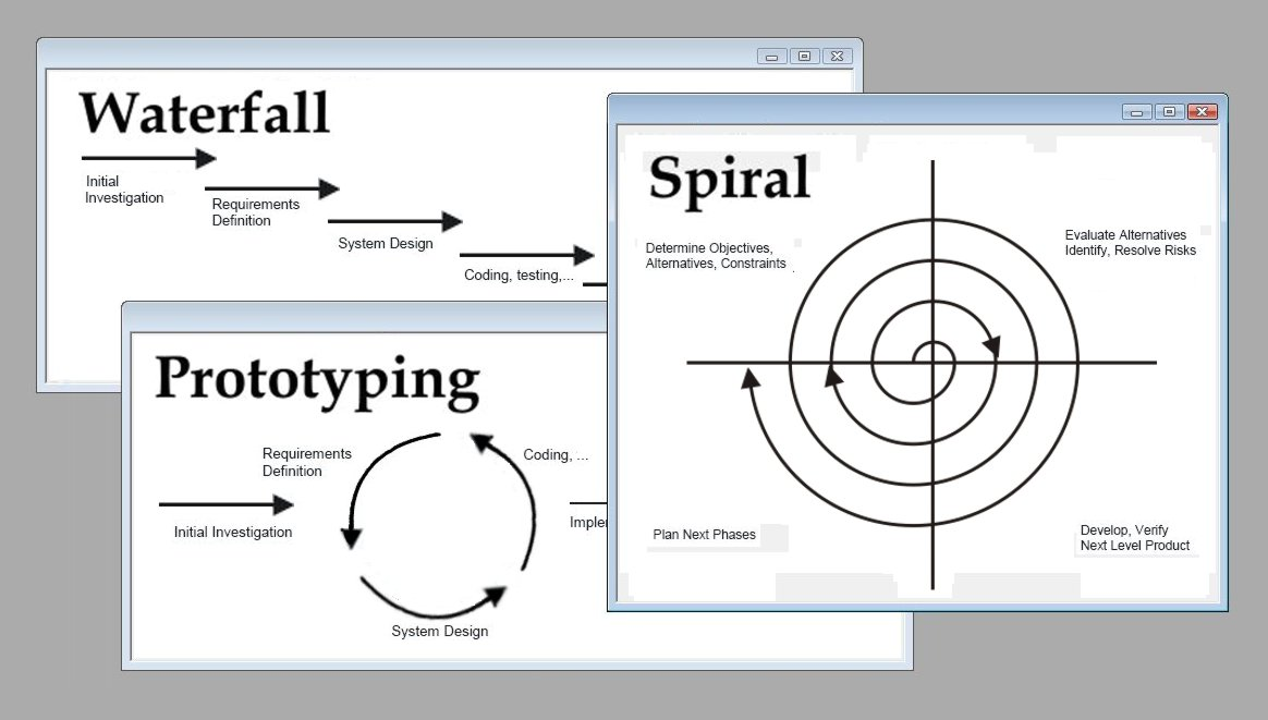 There is a set of more general approaches, which are developed into several specific methodologies. These approaches are: Waterfall: linear framework type Prototyping: iterative framework type Incremental : combination of linear and iterative framework type Spiral : combination linear and iterative framework type Rapid Application Development (RAD) : Iterative Framework Type These approaches have three basic patterns